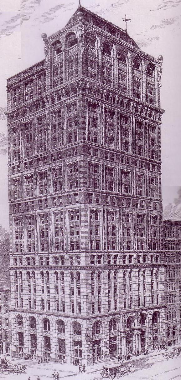 Drawing of the American Tract Society Building in New York, NY American Tract's first home in 1825 was a four-story building at 87 Nassau Street in New York City. Later, in 1894, American Tract built a 23-story headquarters near Broadway and Fifth Avenue in New York City, which still stands today. At the time of its construction it was one of the tallest buildings in NY City. (source) See File:ATS - NYT Nassau Park Row jeh.jpg for a modern photo.